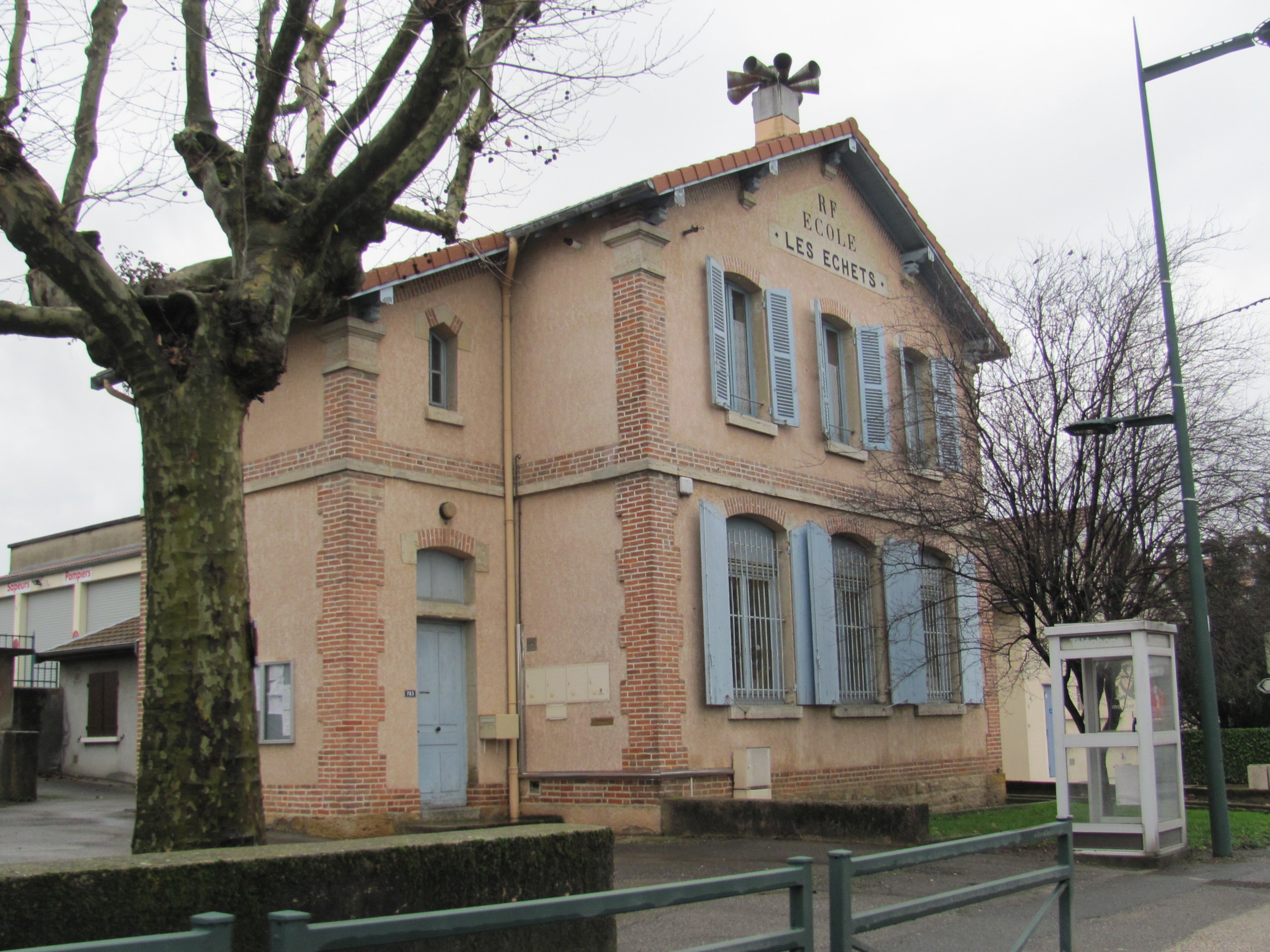 School of Les Échets.